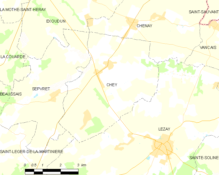 Map of French municipality Chey